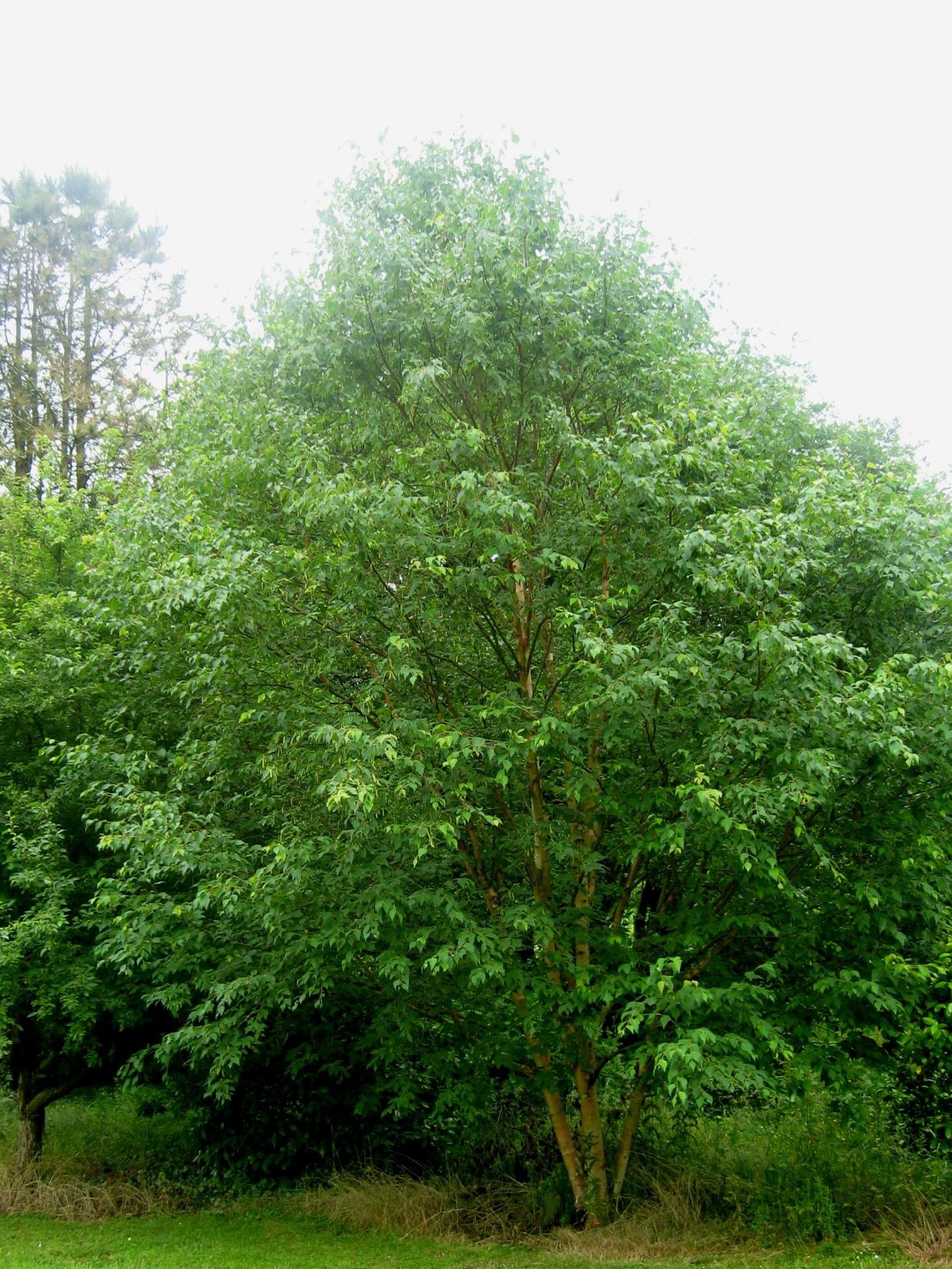 Photo of Betula grossa, taken at Sir Harold Hillier Gardens, England